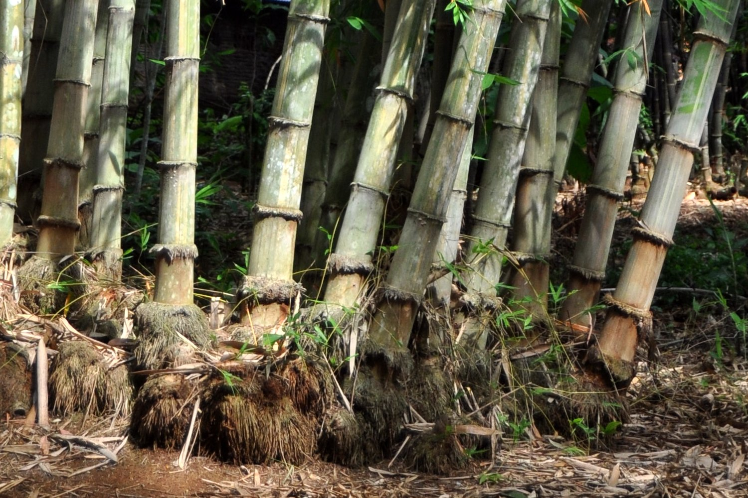 Maxima bamboo (Gigantochloa pseudoarundinacea); lower culms. From Kuningan, West Java, Indonesia.